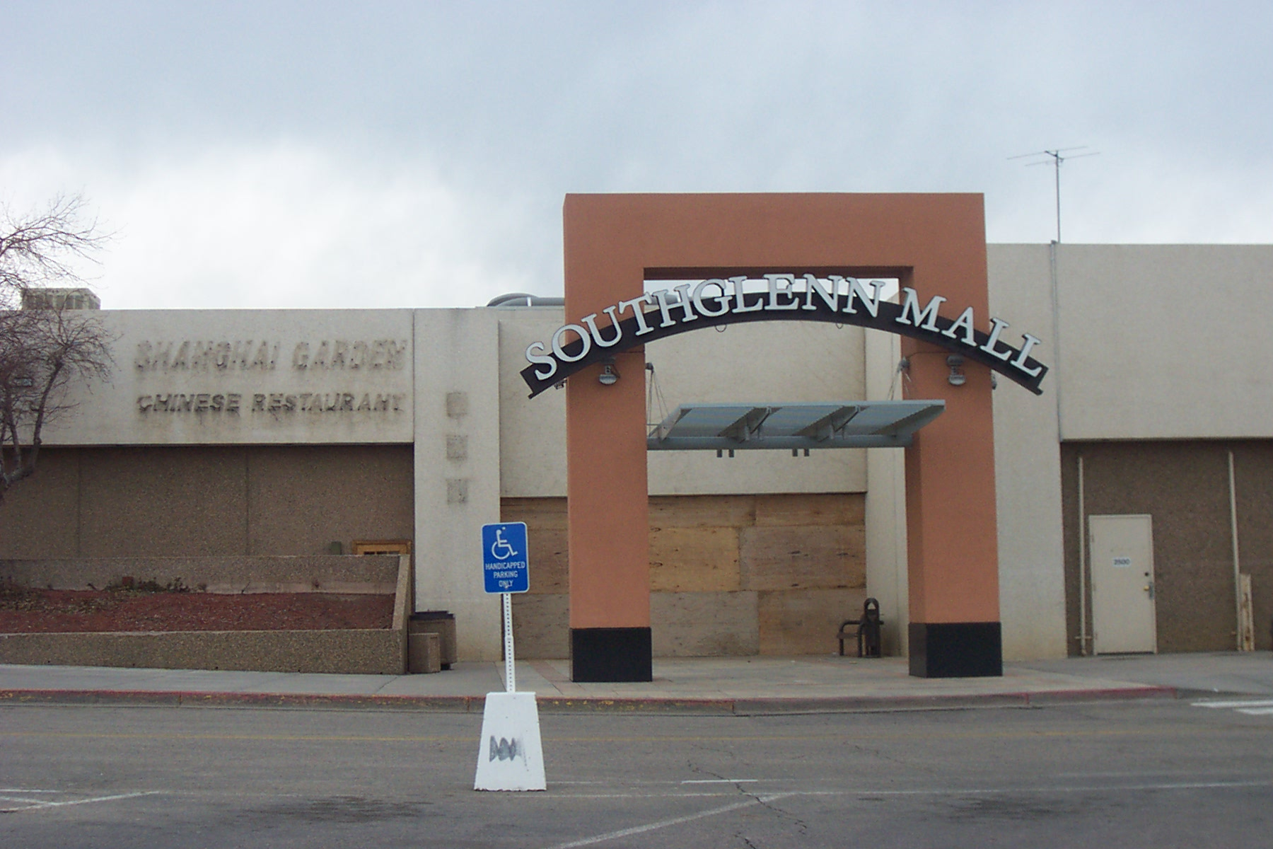 Boarded up east entrance to Southglenn Mall, Centennial, Colorado, Colorado.